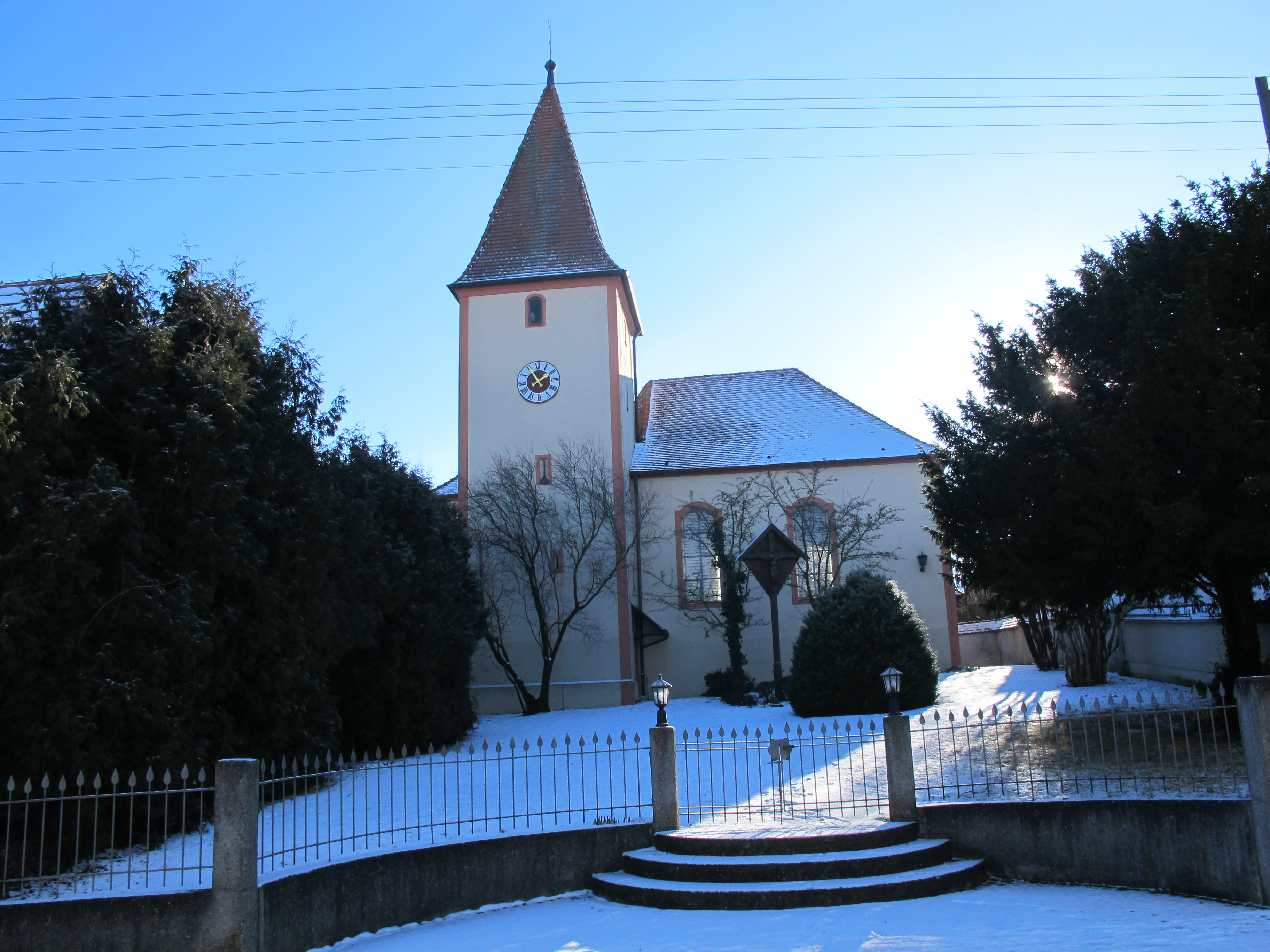 St. Stephan, catholic church, Reimlingen